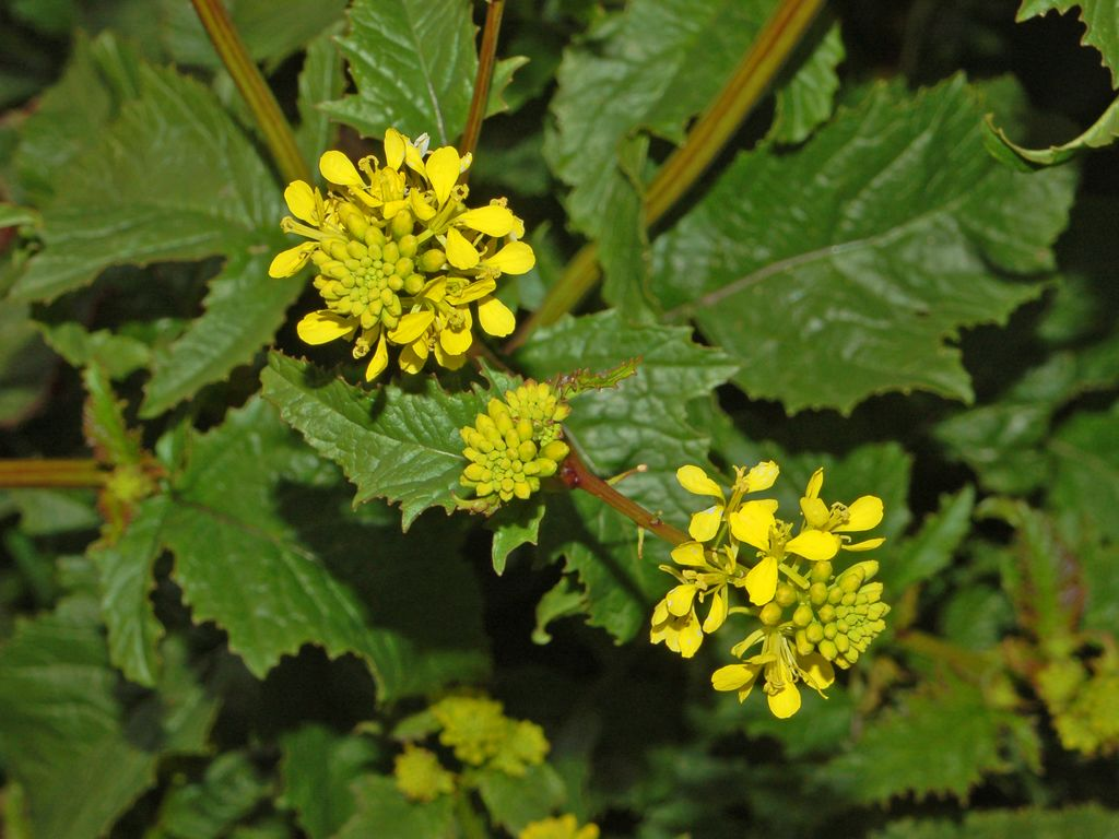 Sinapis arvensis - S. Agata Fossili, Alessandria, Italy